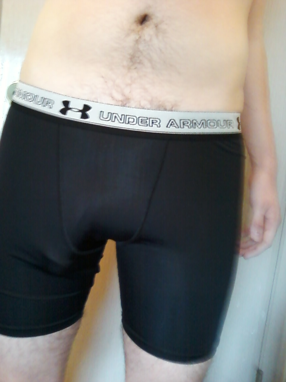 Male Underamour compression shorts